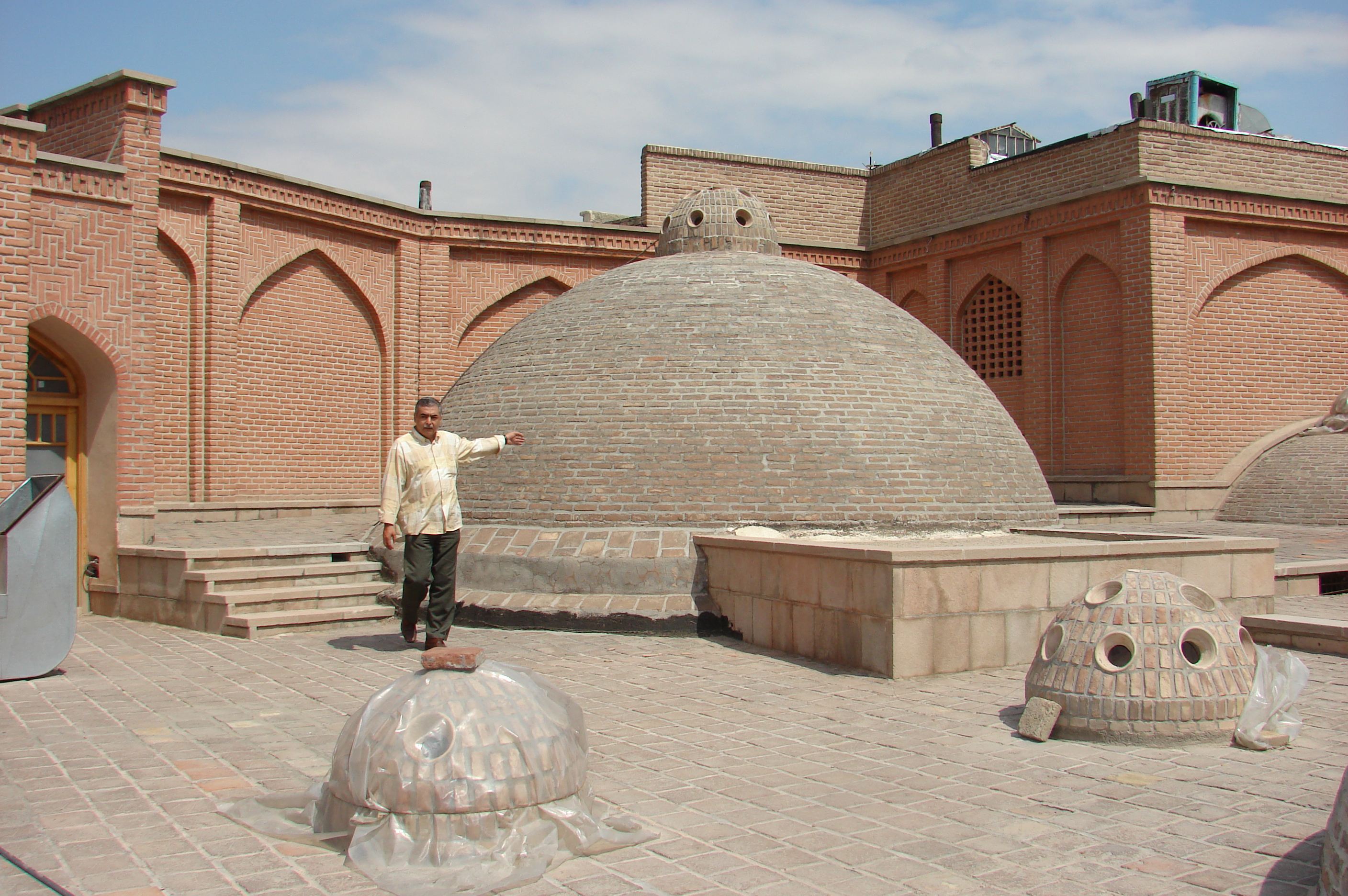 Nobar Bathroom Roofs - Tabriz.